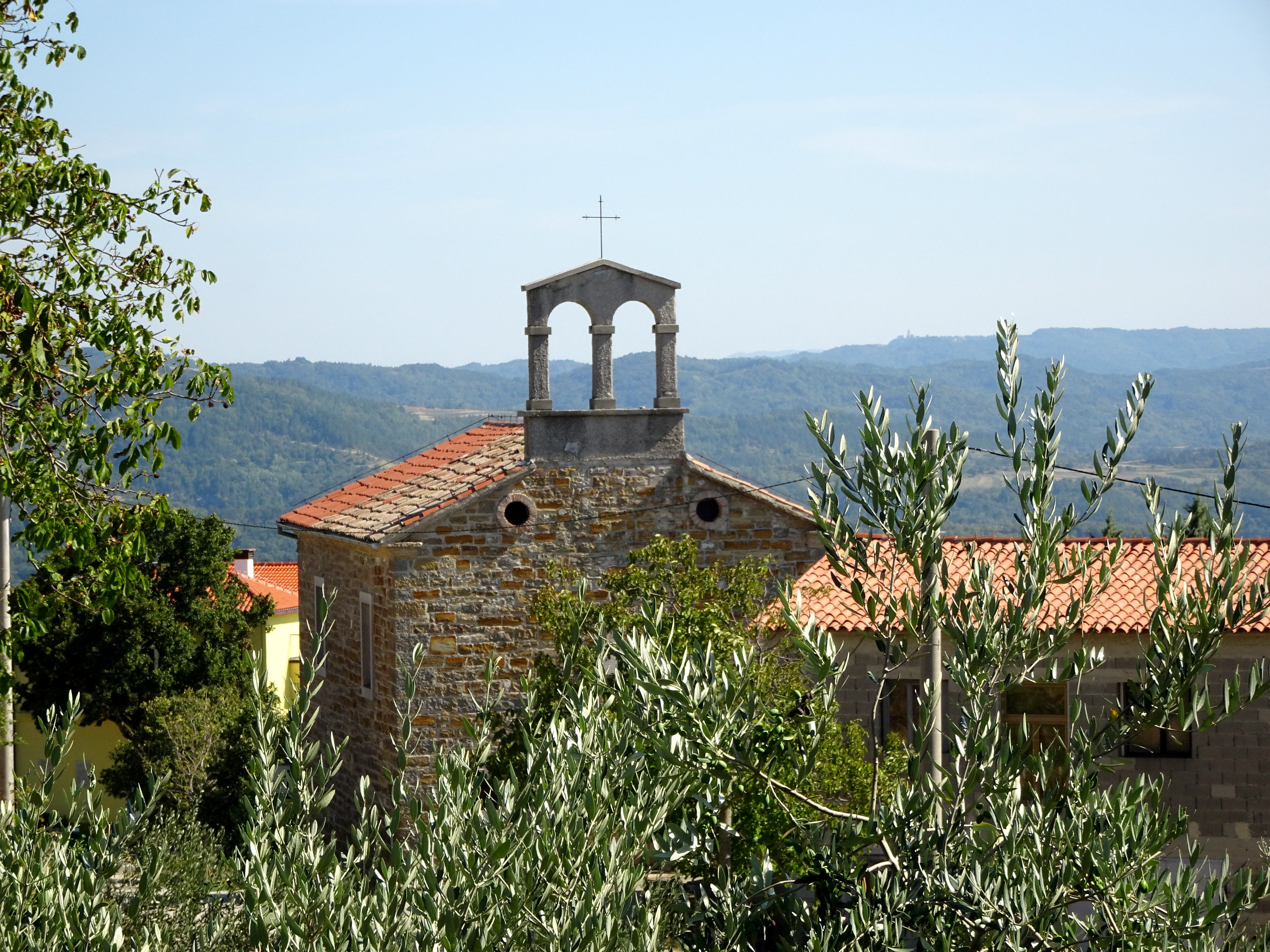 Vrh, Istria, Croatia